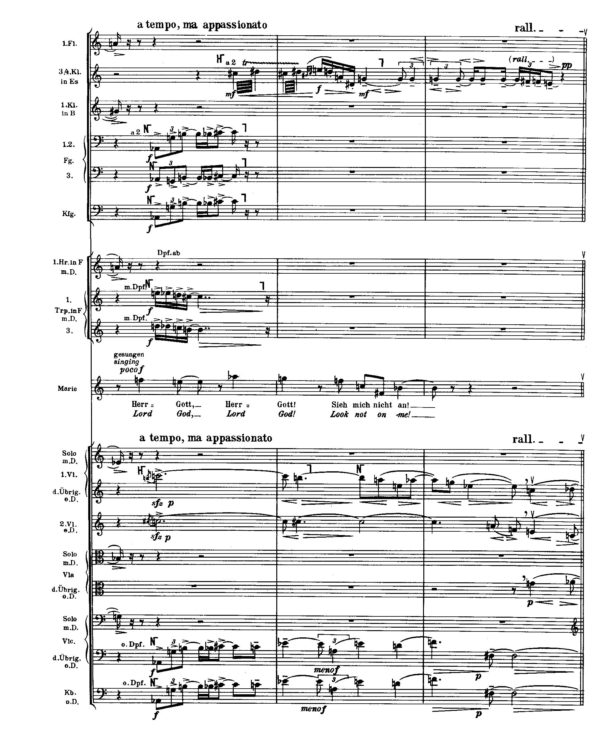 Alban Berg, Wozzeck. Score, revised by A.E. Apostel, Universal Edition 1955, p. 382.